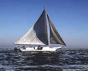 Skipjack under sail from EPA Gulf of Mexico Program website (original here) cropped and converted to PNG format